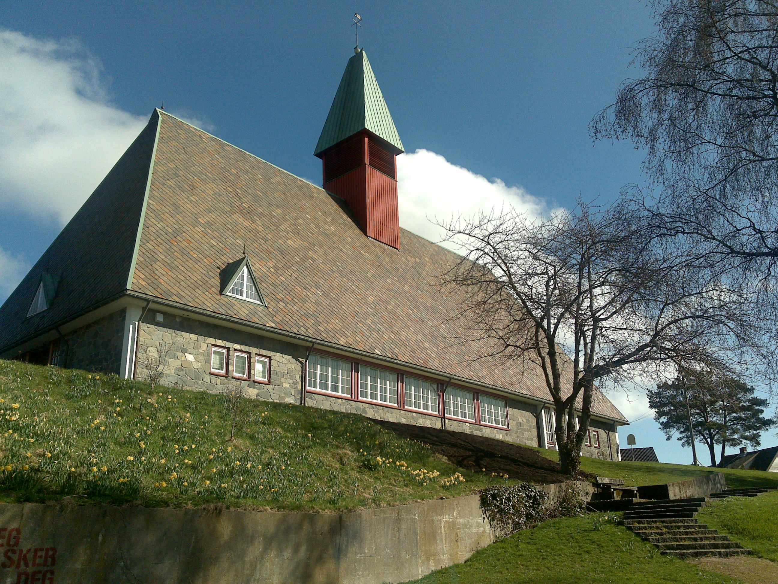 Vaagsbygd church, Kristiansand, Norway. (Vågsbygd kirke)